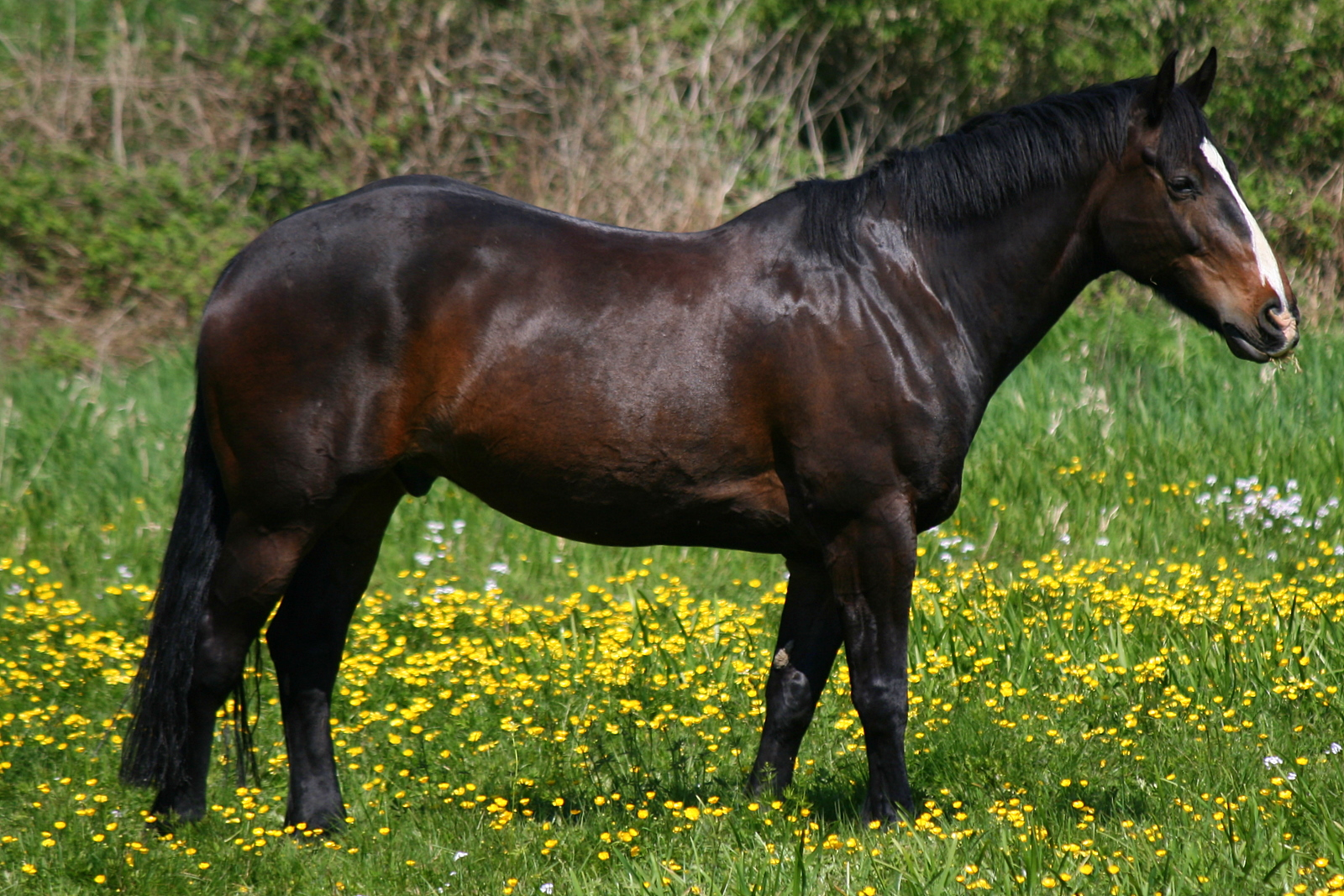 Warmblood horse - please identify (impossible: you can't just look at a horse an identify the breed, with the Exeption of Haflinger an Fjord maybe)